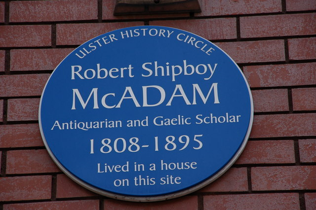 Blue plaque, Belfast This plaque, in College Square East commemorates Robert Shipboy McAdam. The present building is occupied by accountants.